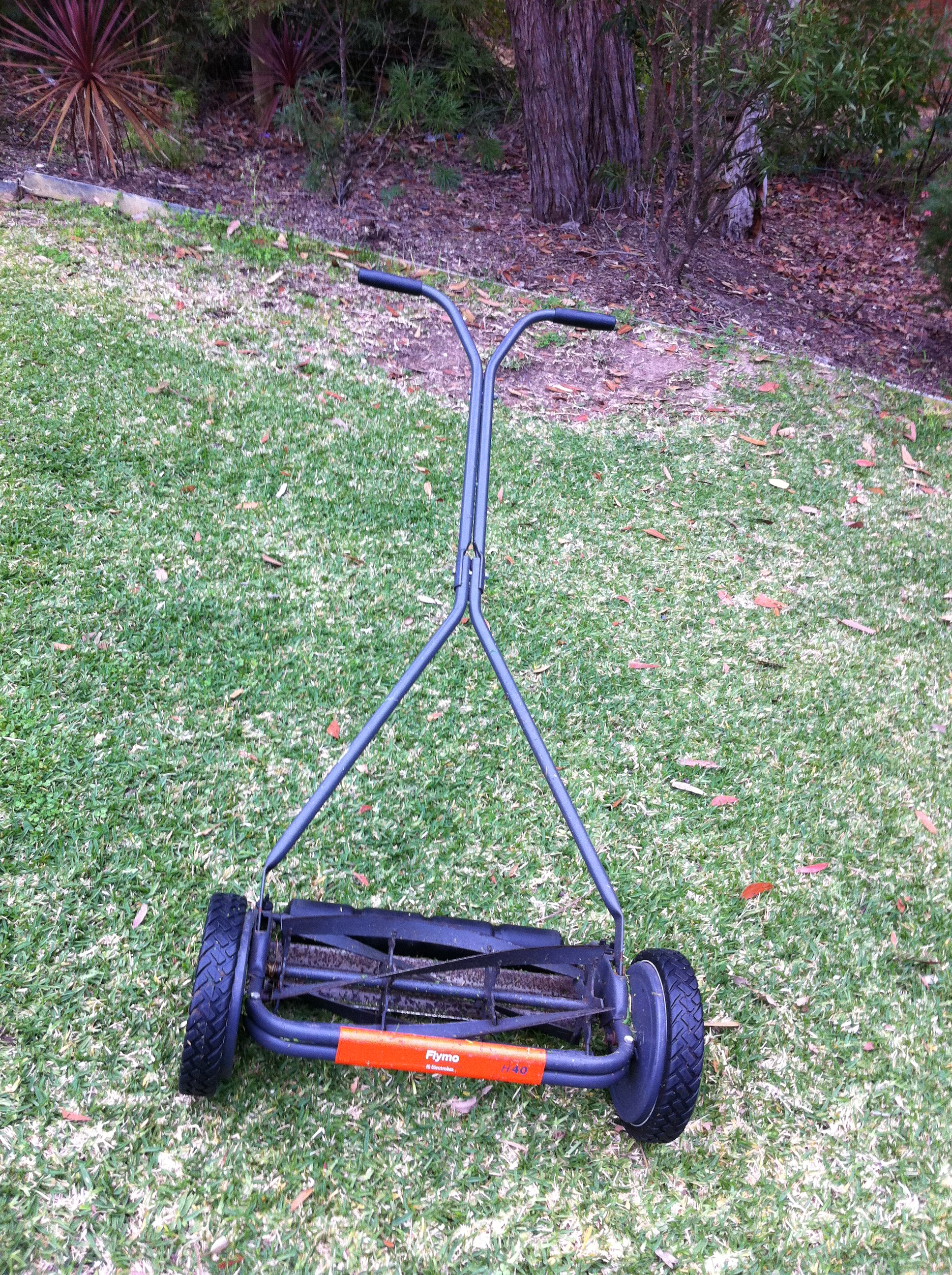 Purchased this Flymo H40 push mower second-hand at a garage sale for $20.00. Works really well.